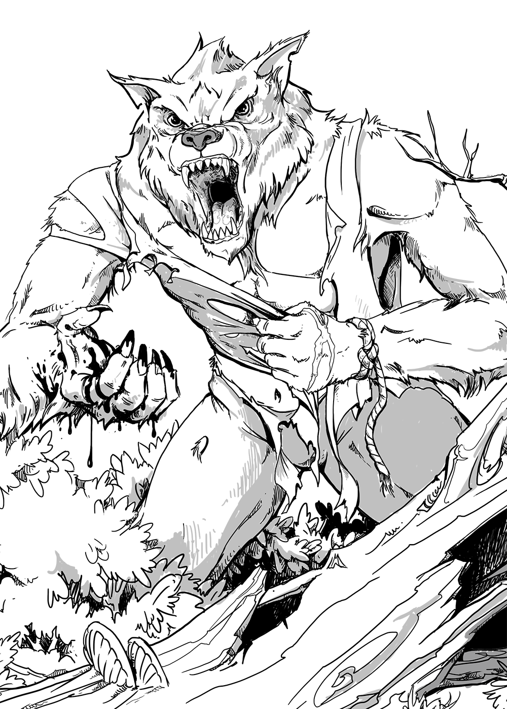 shapeshifter based on various legends of lycanthropes, werecats, and other such beings. In addition to the werewolf, in Dungeons & Dragons, weretigers, wereboars, werebears and other shapeshifting creatures similar to werewolves and related beings are considered lycanthropes, although in the real world, "lycanthrope" refers to a wolf-human combination exclusively.